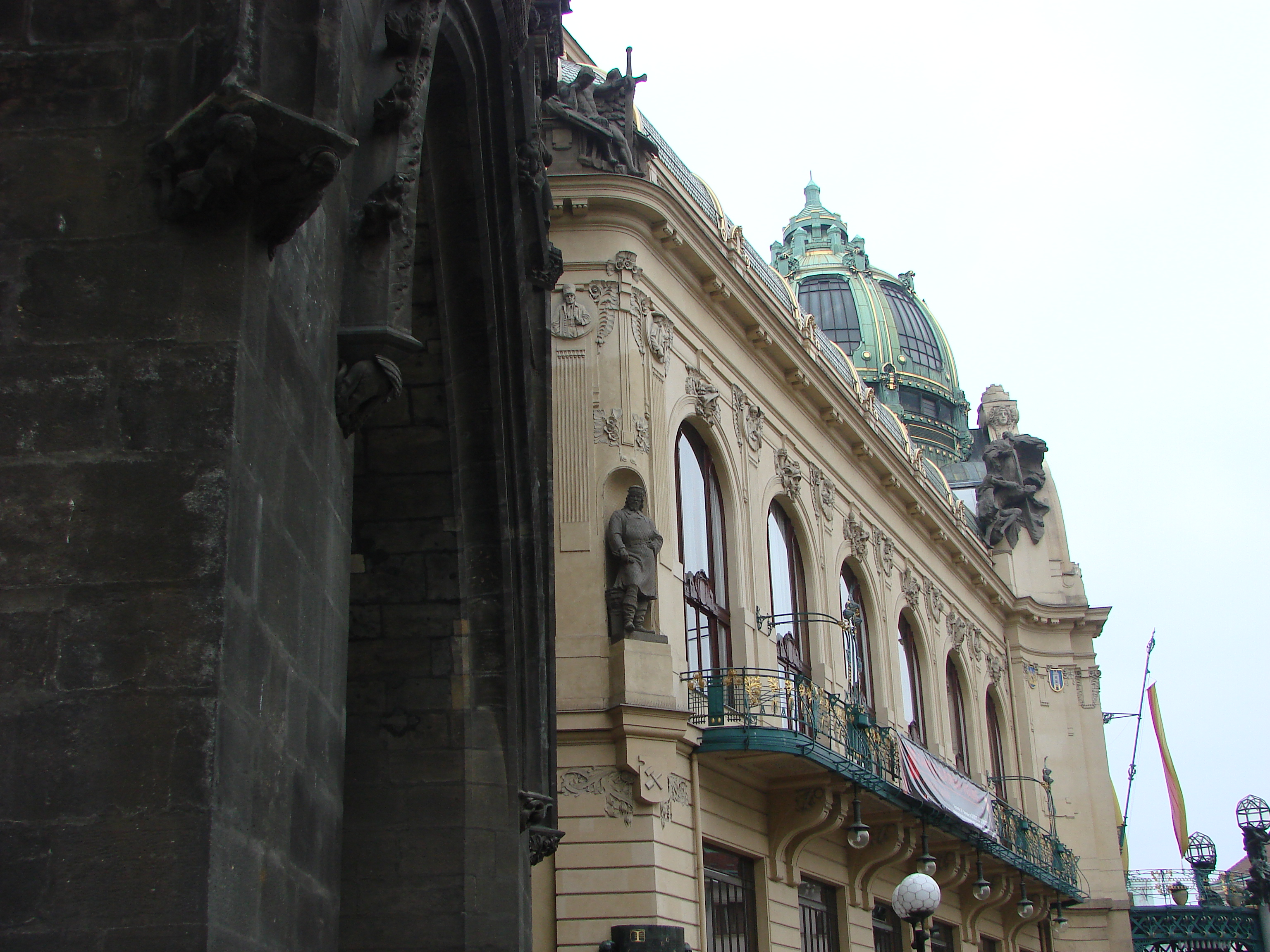 Facade - Prague - Czech Republic - 02